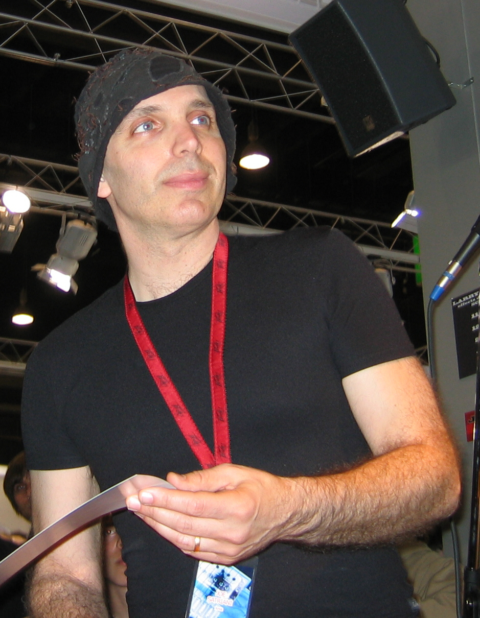 Joe Satriani at the Music Fair in Frankfurt in 2004.